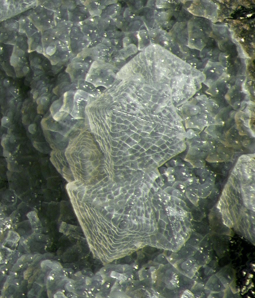 Faujasite Locality: Limberg Quarries, Sasbach, Kaiserstuhl, Baden-Württemberg, Germany Edges ~ ½ mm. Thanks to Quintin Wight (1998). MOB coll. Xl with a beautiful “crackled glaze” surface. This surface is just a crust or coating – see Faujasite_subgroup-466644.jpg which shows xls with the crust partly flaked off. They are colorless and smooth underneath.